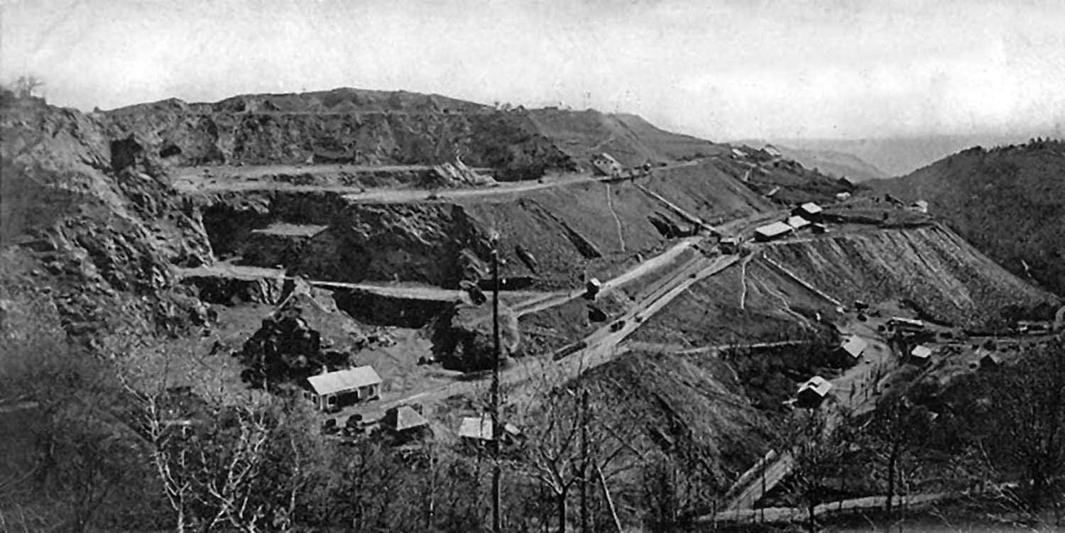 This is the secondary train station in Hunedoara where the Transylvanian Mining Railway starts. We found and recovered this photo in the abandoned archive building of the former steel works in Hunedoara.